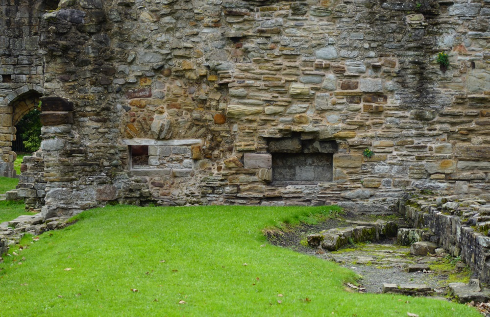 Basingwerk Abbey, Wales. East wall of kitchen. A hatch gave access to the refectory behind the wall.